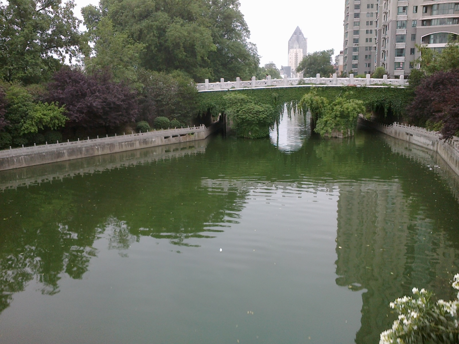 Moat of Yang Wu Period,Nanjing